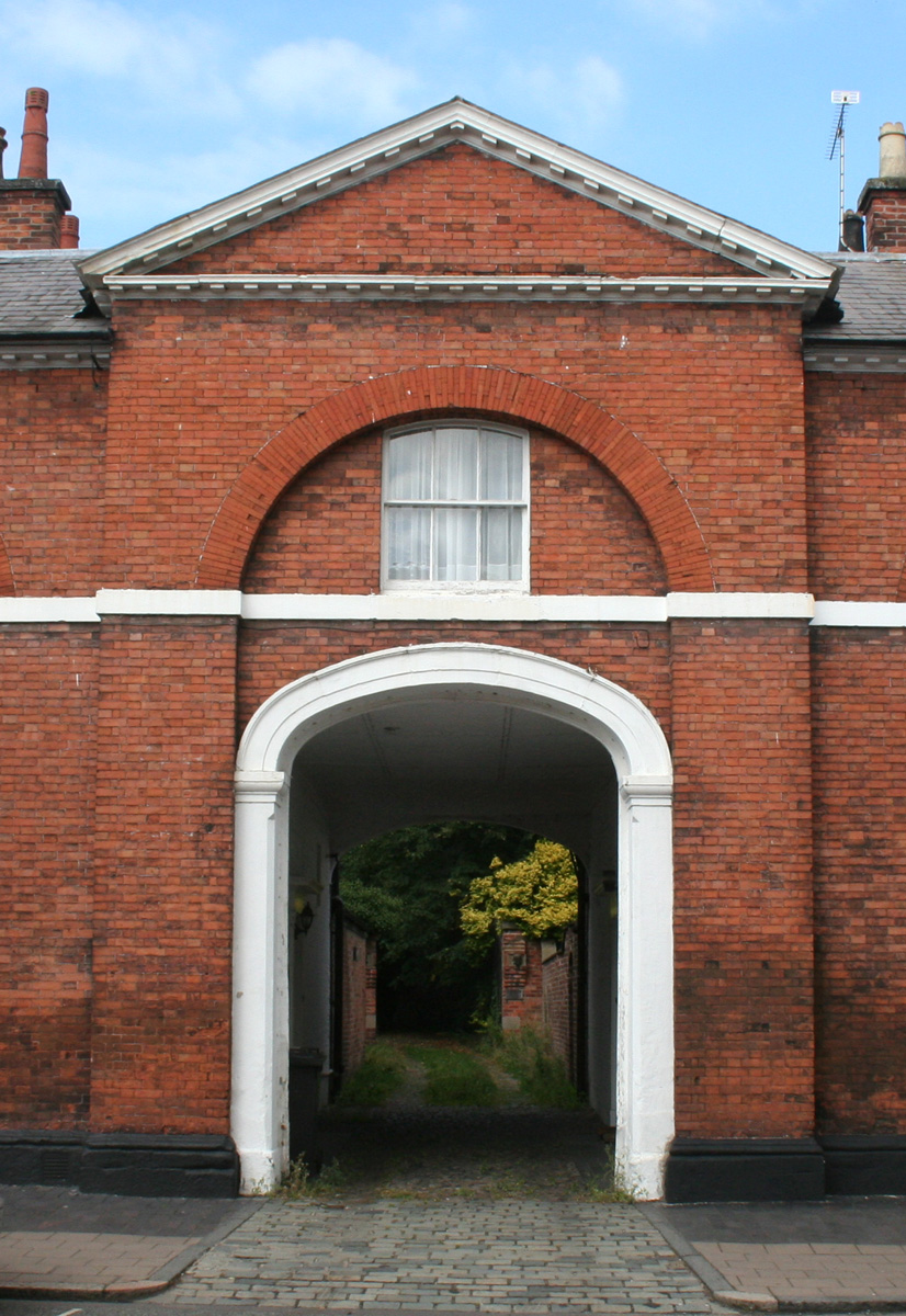 Detail of The Gateway, Welsh Row, Nantwich, Cheshire